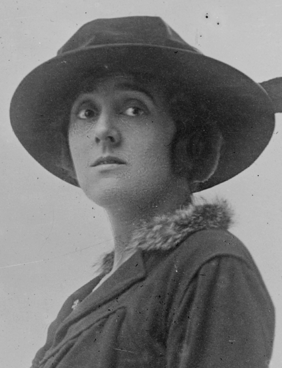 English actress Margaret Wycherly (1881-1956)